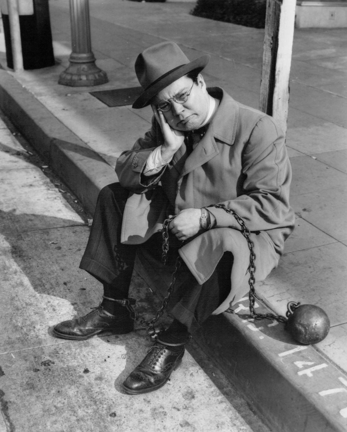 Photo of actor Bill Thompson in the role of the henpecked husband Wallace Wimple from the radio program Fibber McGee and Molly.